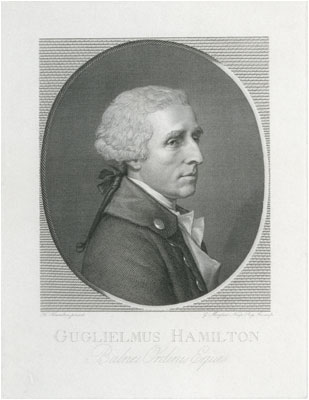 William Hamilton (1730-1803), Diplomat and Archaeologist